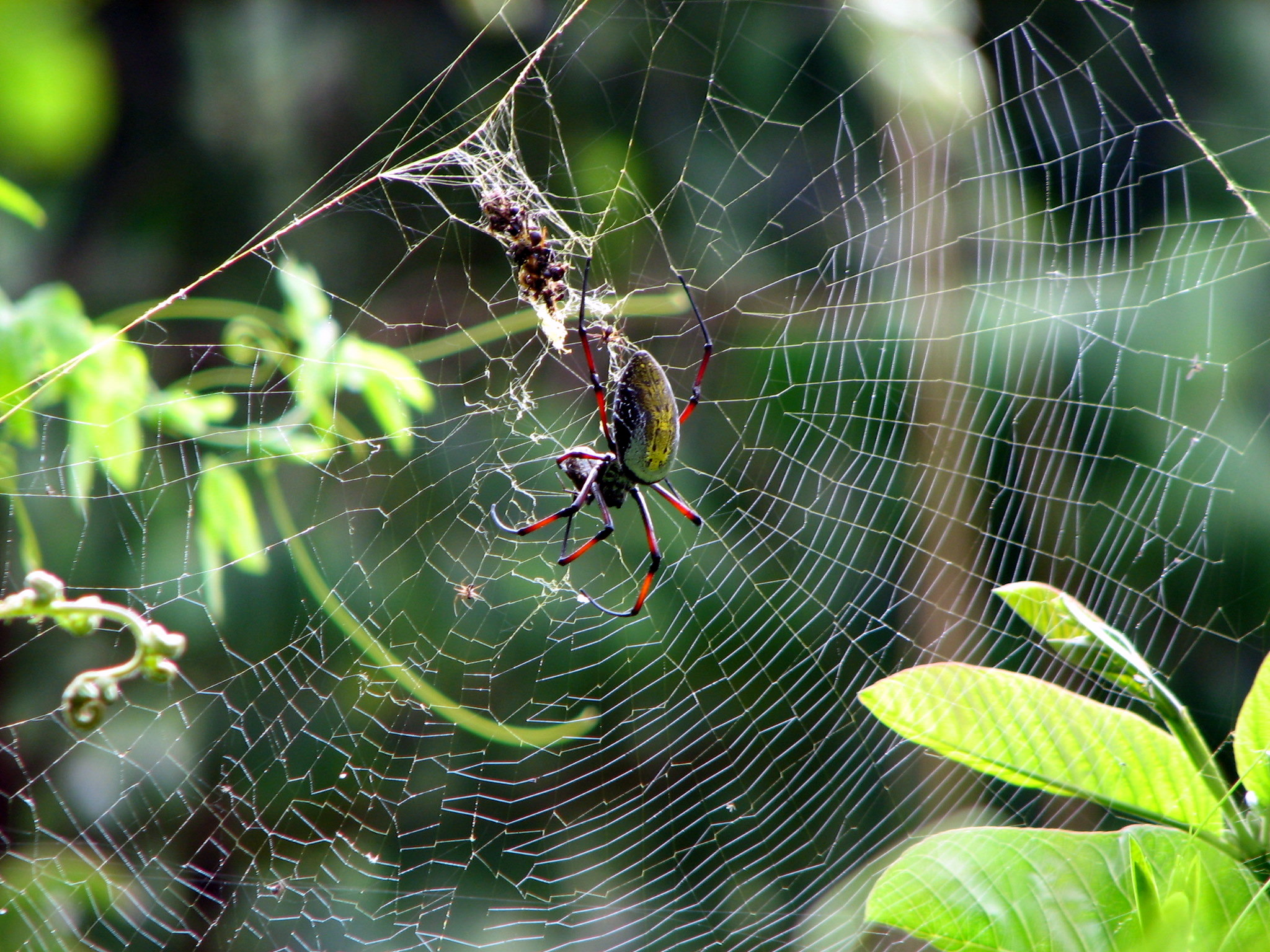 Red-legged golden orb-web spider near lake Tritriva, Madagascar